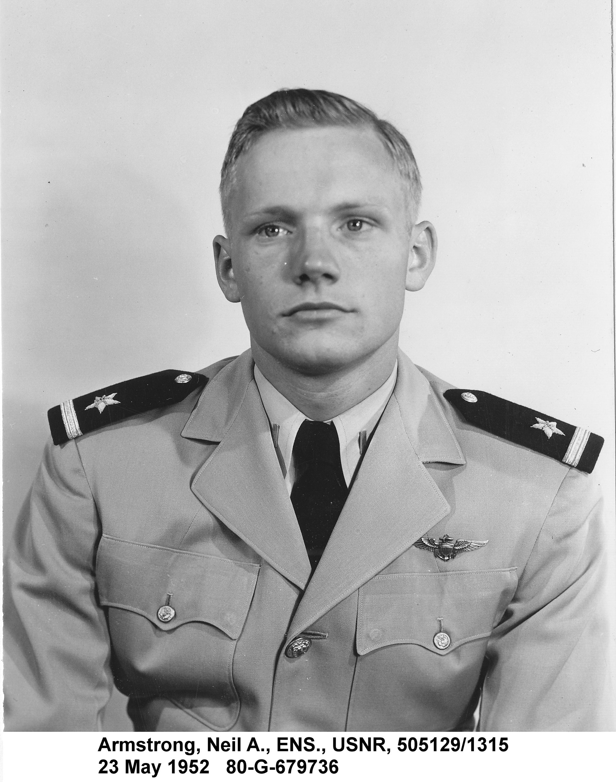 Ensign Neil Armstrong